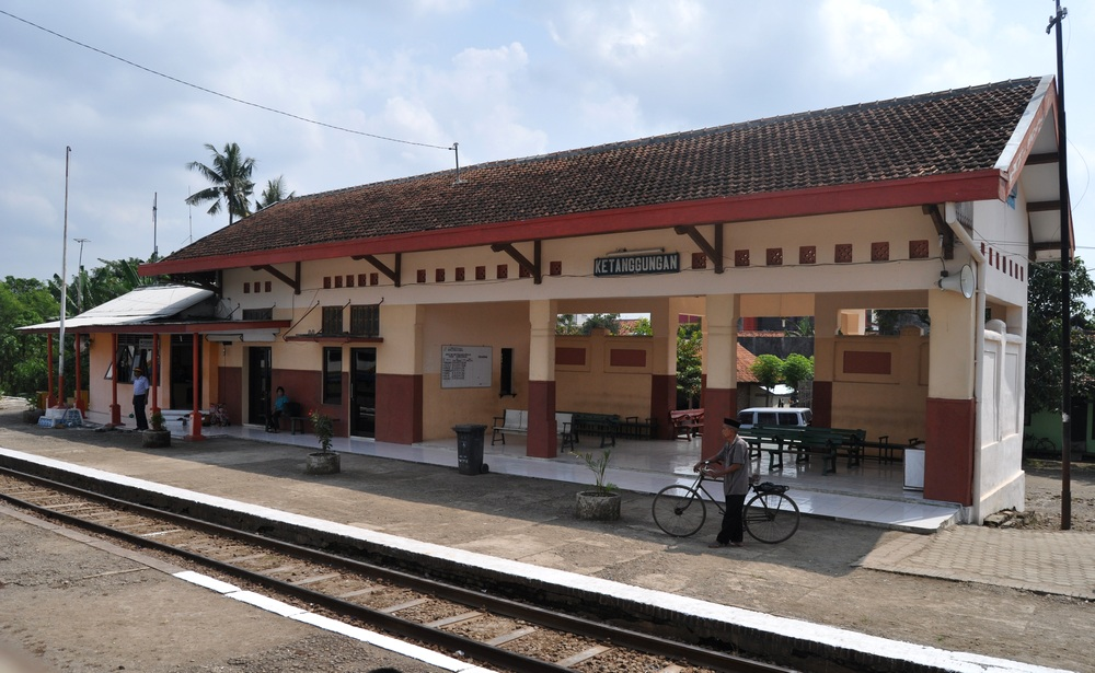 Ketanggungan station in Brebes, Central Java